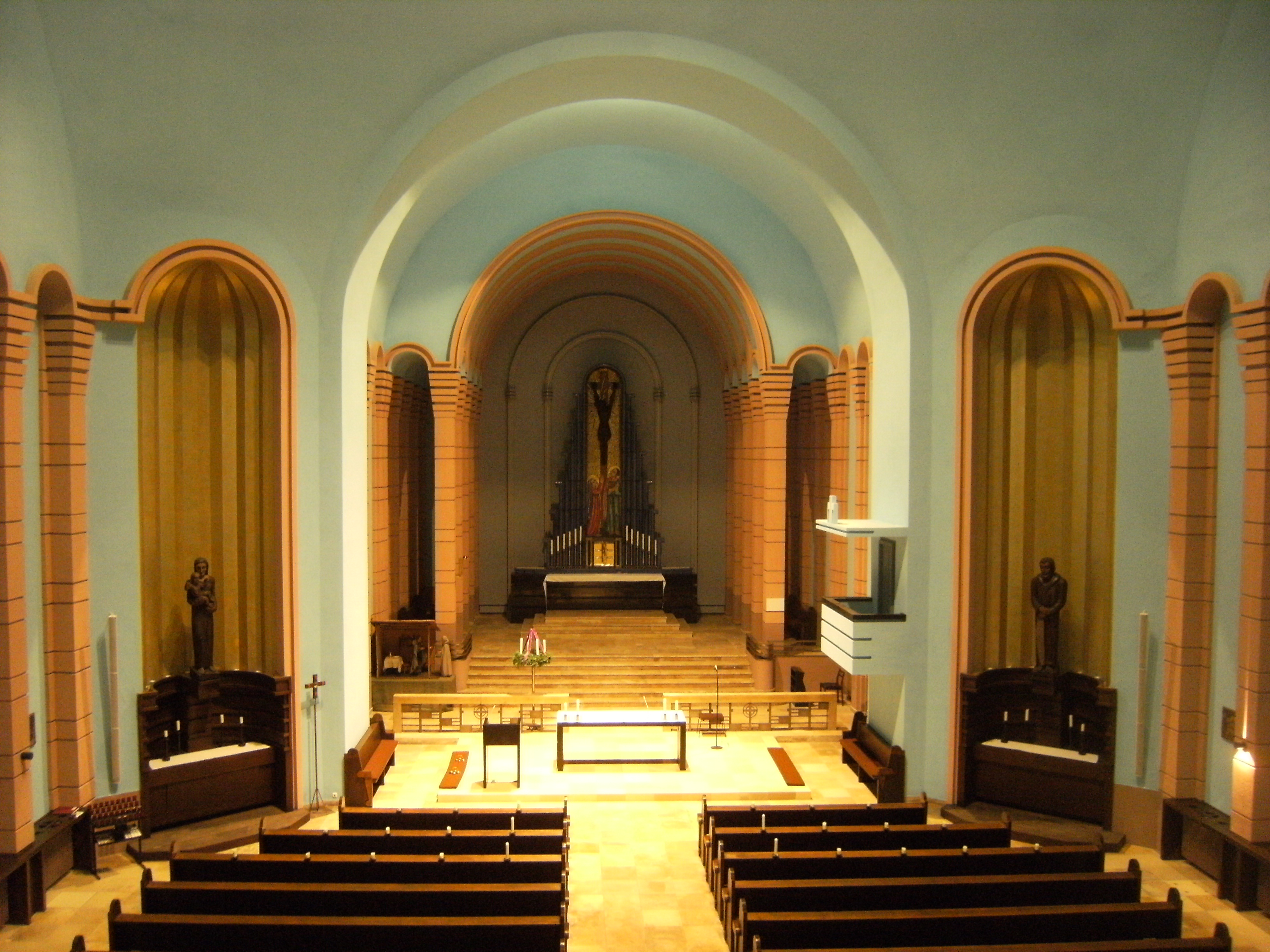 Interior of the late expressionistic Church St. Augustinus, Berlin (est. 1928)